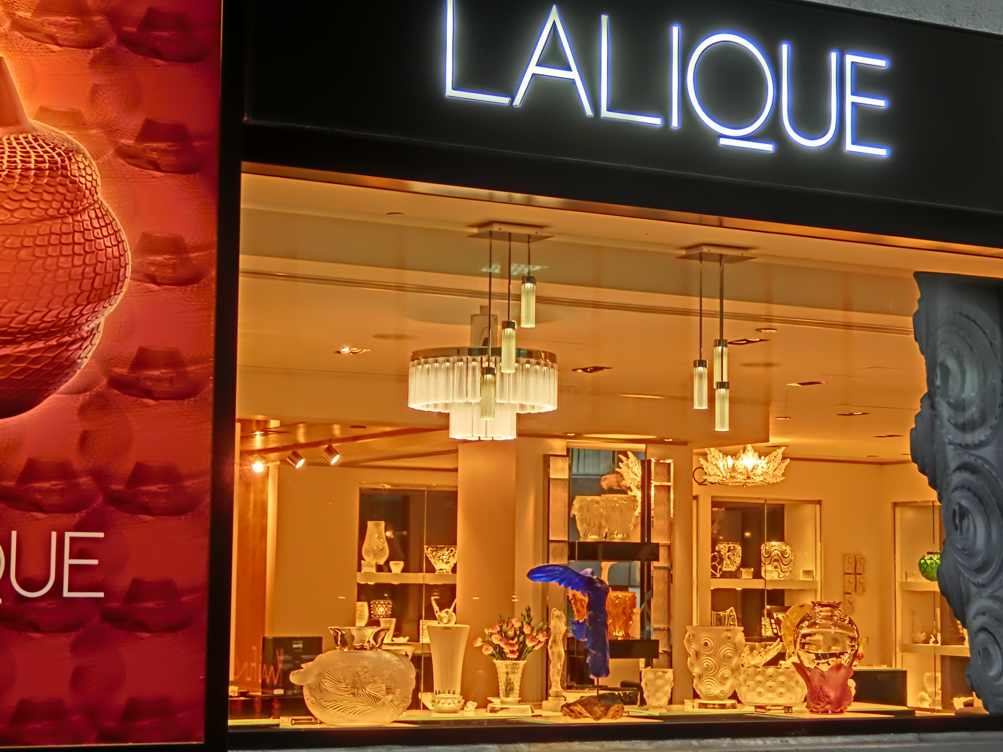 中環 都爹利街, Duddell Street, Central, Hong Kong